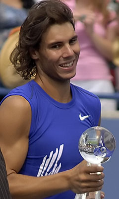 Rafael Nadal holding the 2008 Rogers Cup trophy